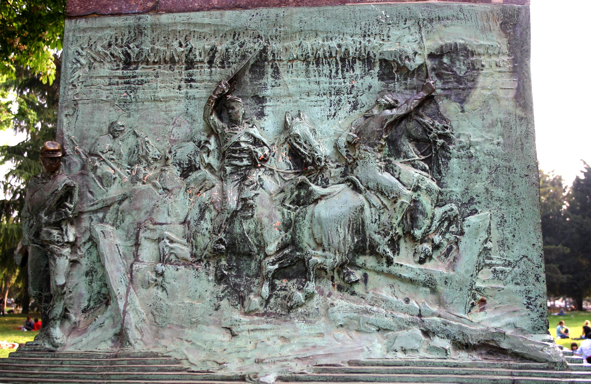 Detail (Garibaldi soldiers) from the monument by Enrico Butti for the Garibaldine general Giuseppe Sirtori (1892), in the "Giardini pubblici di Porta Venezia" gardens, in Milan, Italy. Picture by Giovanni Dall'Orto, April 22 2007.